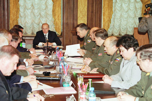 MOSCOW. A Defence Ministry meeting on the strategy and future prospects of defence planning.